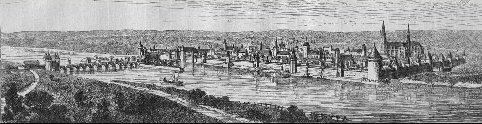 View of Orléans 1428-9 1 and 2 (of 2), by Anatole France. Project Gutenberg etext 19488